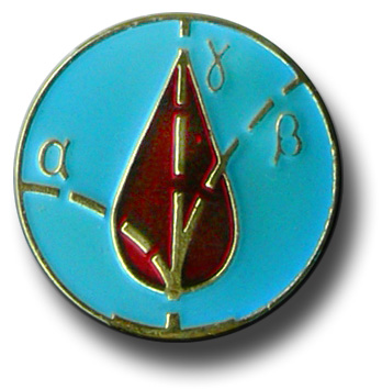 Detail of the central part of the awards which were circulated to the "liquidators" of the Chernobyl disaster. This pattern represents a drop of blood through the radiation signs of alpha, beta and gamma. These workers were requisitioned by the authorities, and they have been exposed to high levels of radiation because of these assignments.